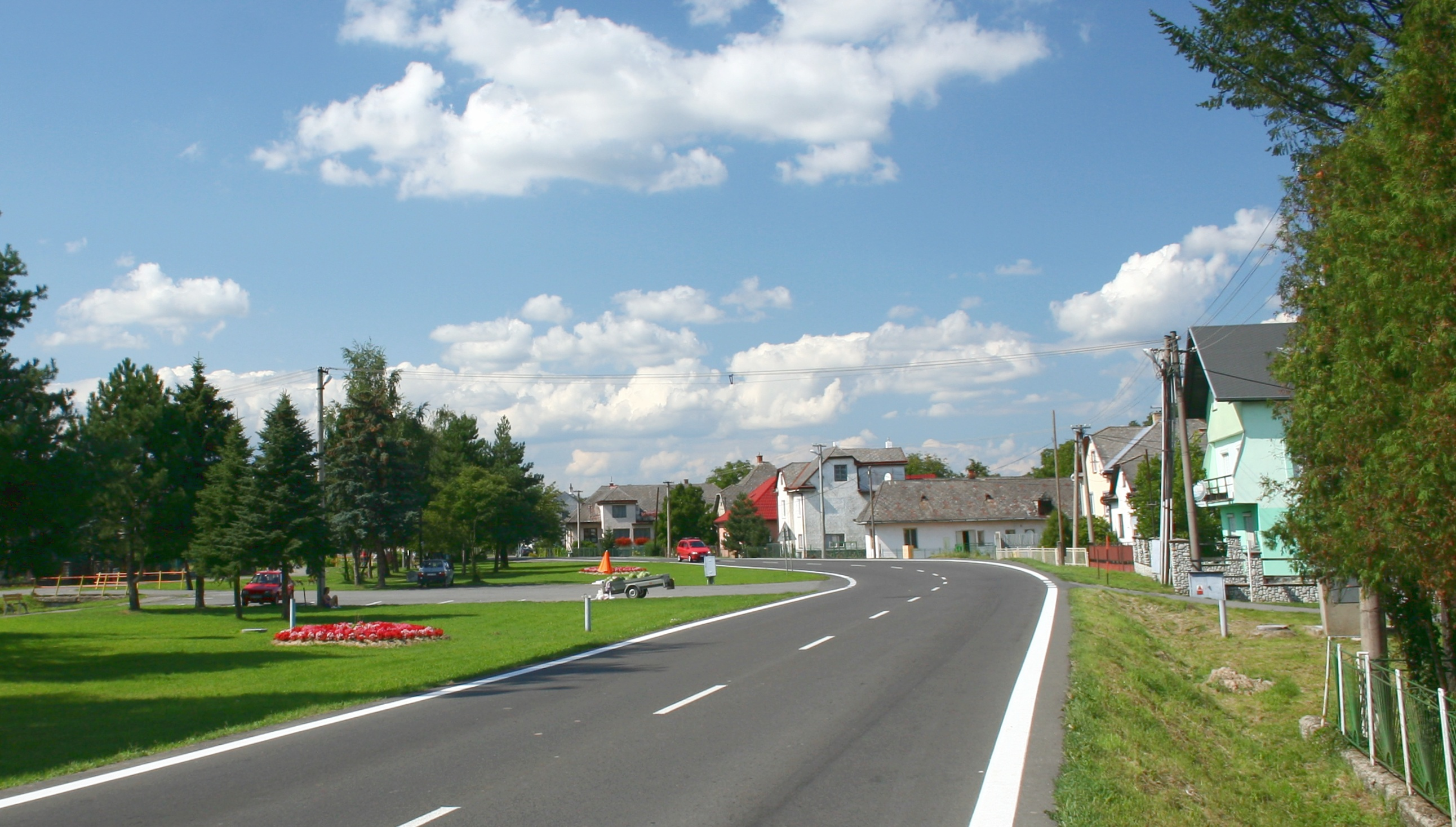 Čaklov, Slowakia